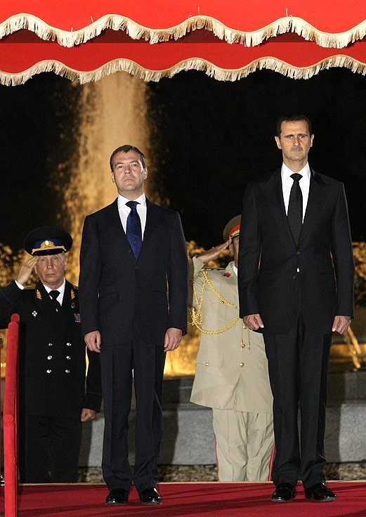 Welcoming ceremony. With President of Syria Bashar al-Assad.